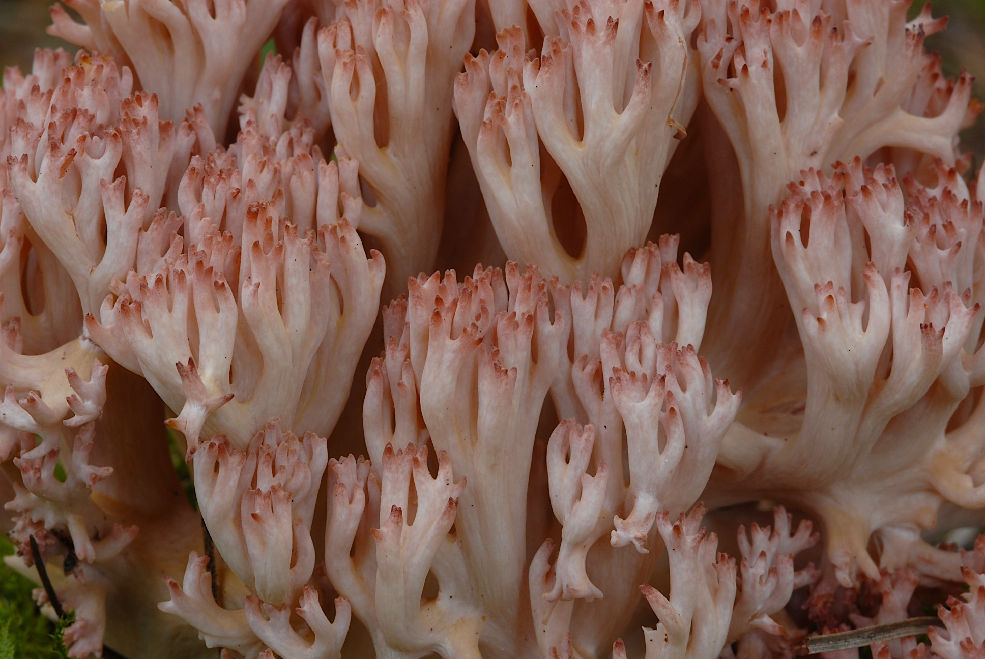 Closeup of the the branch tips of the coral fungus Ramaria botrytis (Pers.) Ricken. Specimen photographed in Mendocino, California, USA.